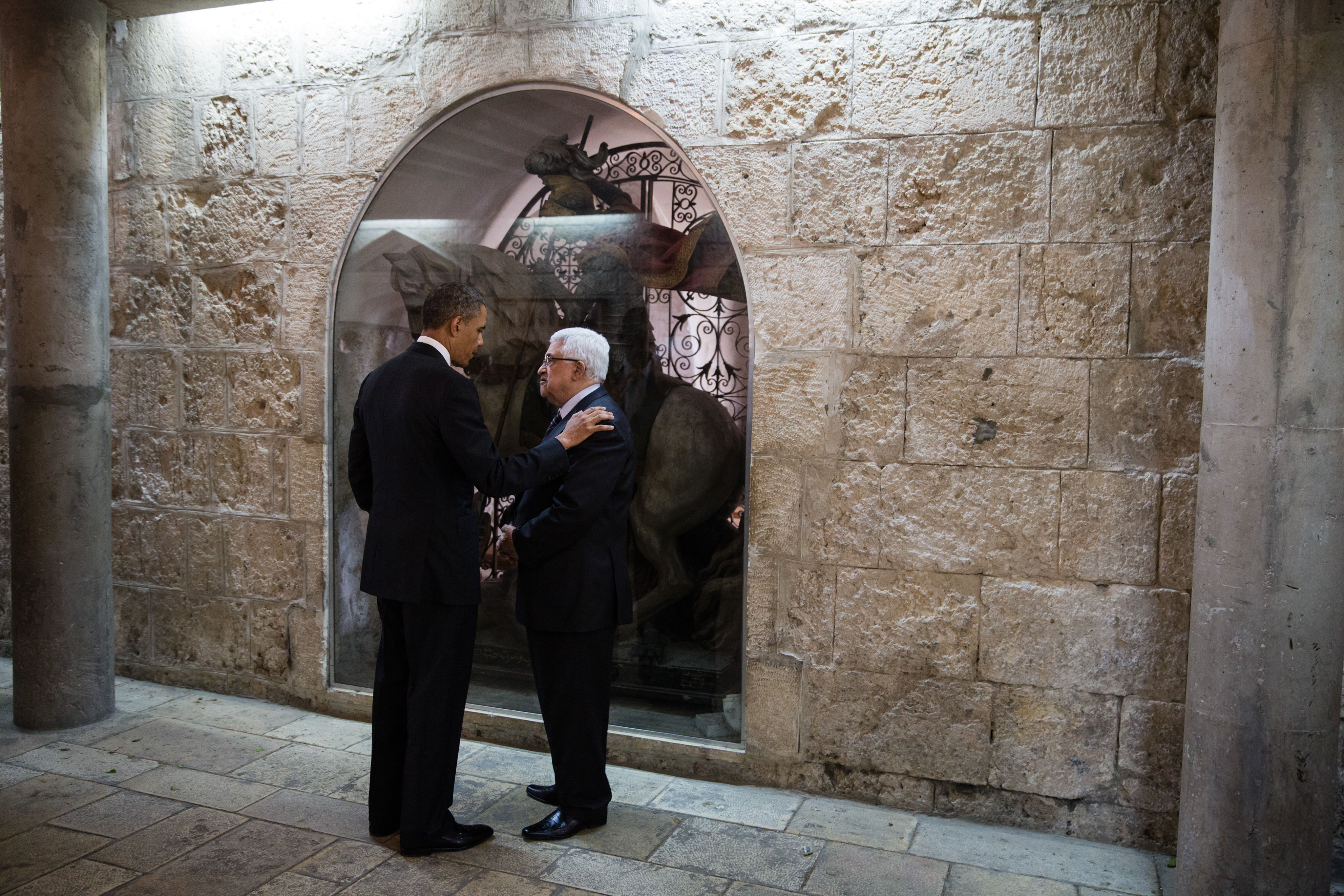 President Barack Obama and President Mahmoud Abbas of the Palestinian Authority talk following their tour of the Church of the Nativity in Bethlehem, the West Bank, March 22, 2013. (Official White House Photo by Pete Souza)